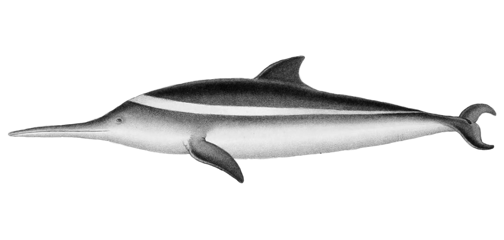 « Delphinus blainvillei » = Pontoporia blainvillei (La Plata dolphin)